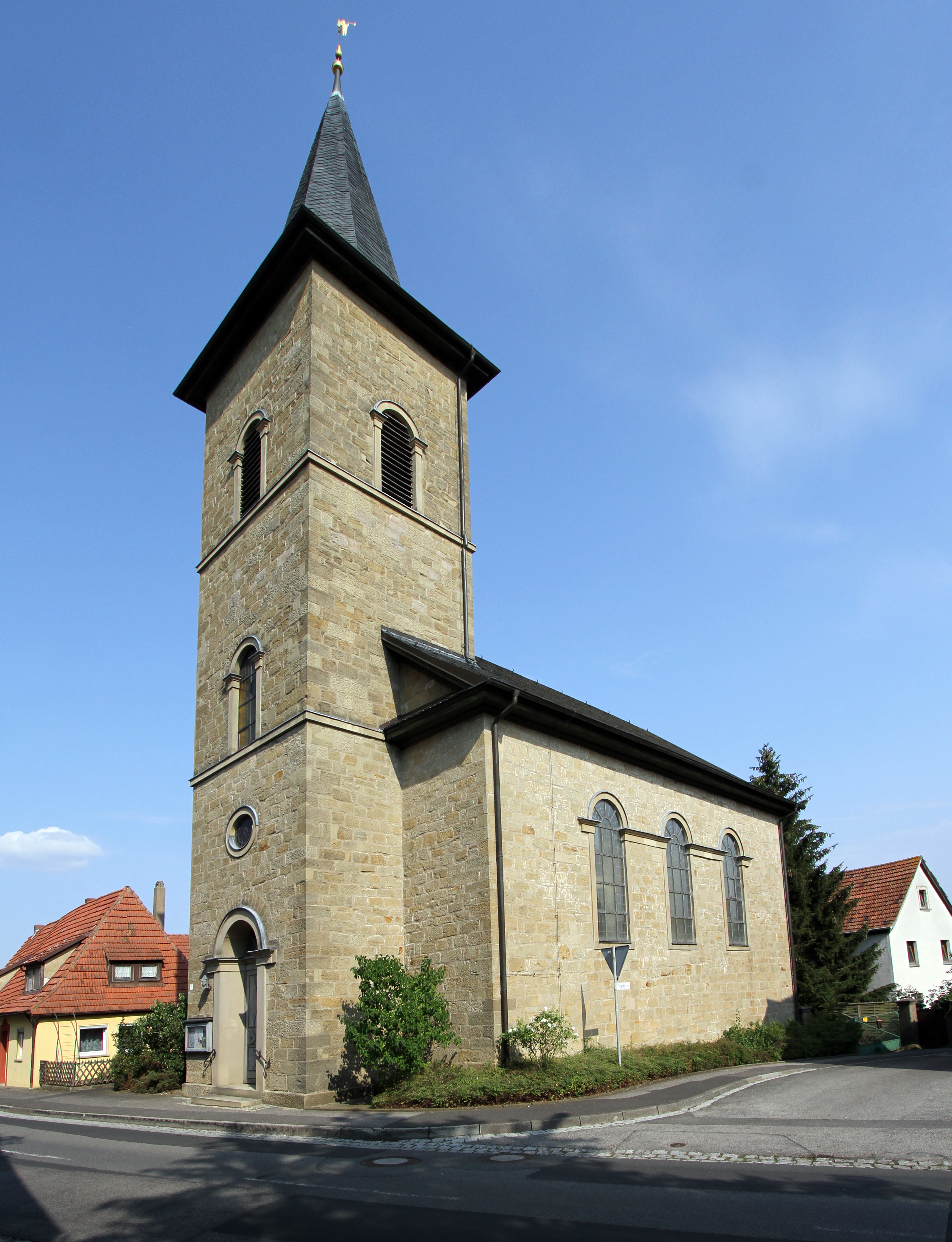 Church of St. Georg in Westheim (Knetzgau)